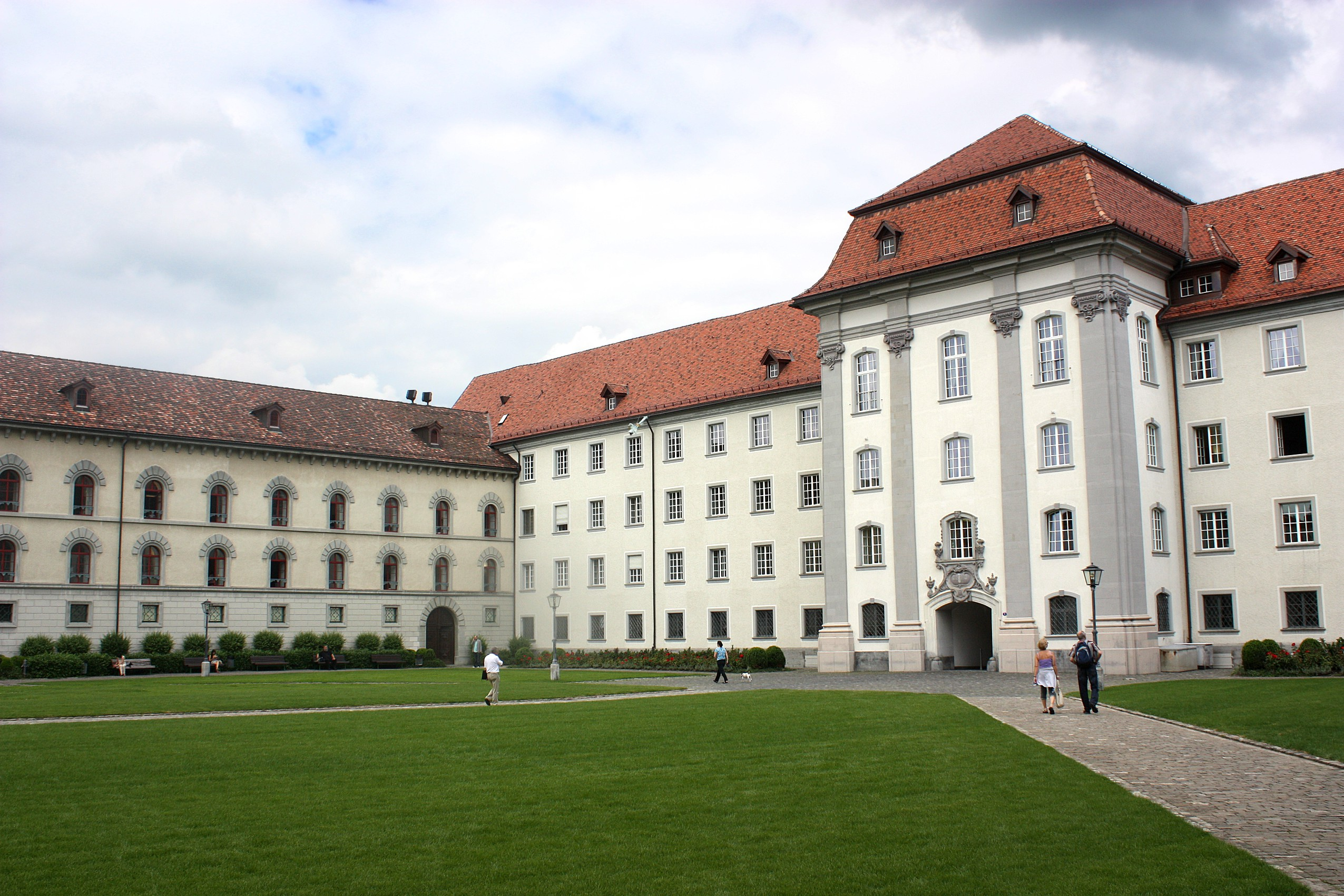 St.Gallen, the abbey courtyard